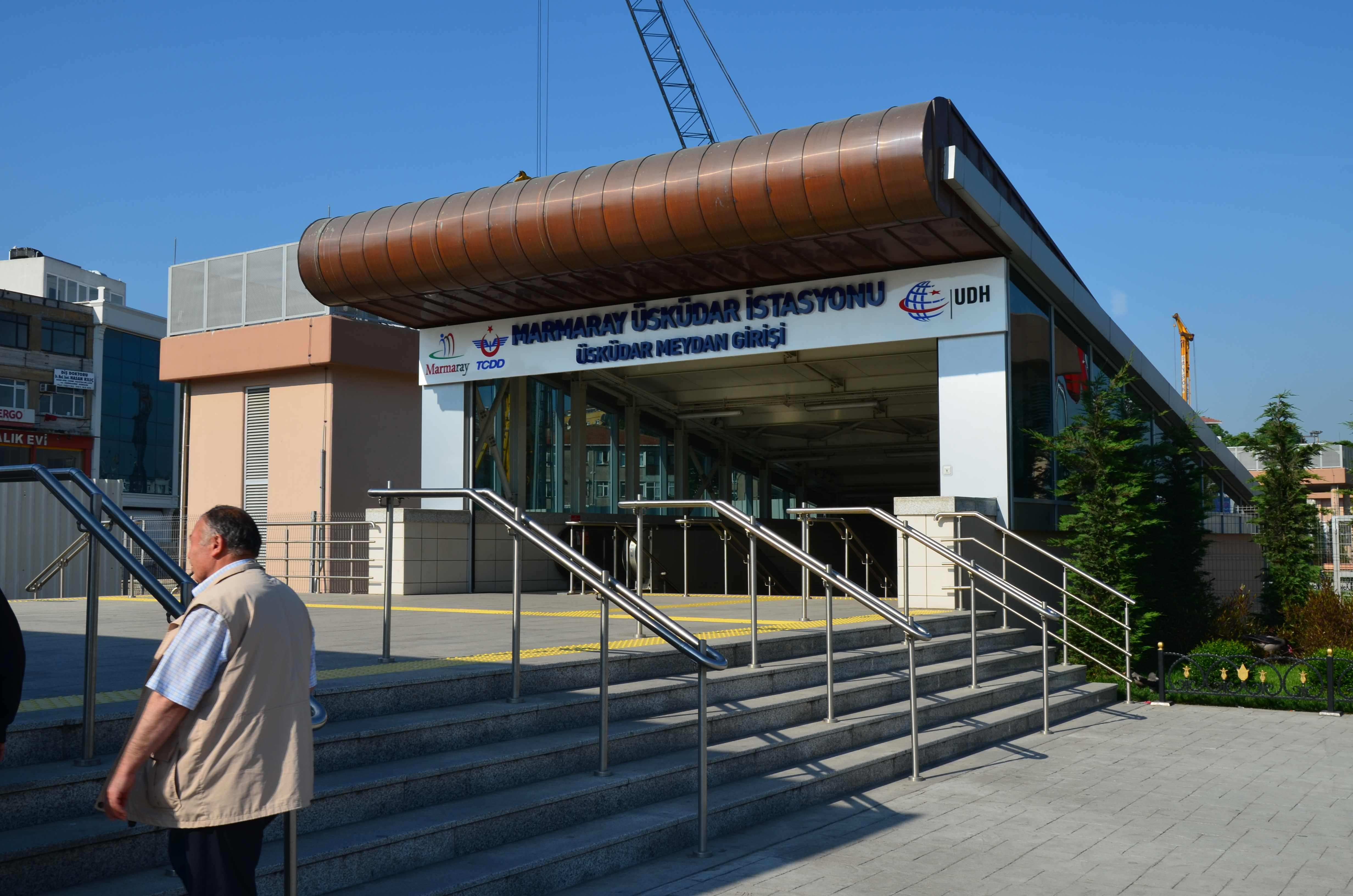 Entrance to Marmaray Üsküdar Station in Istanbul, Turkey